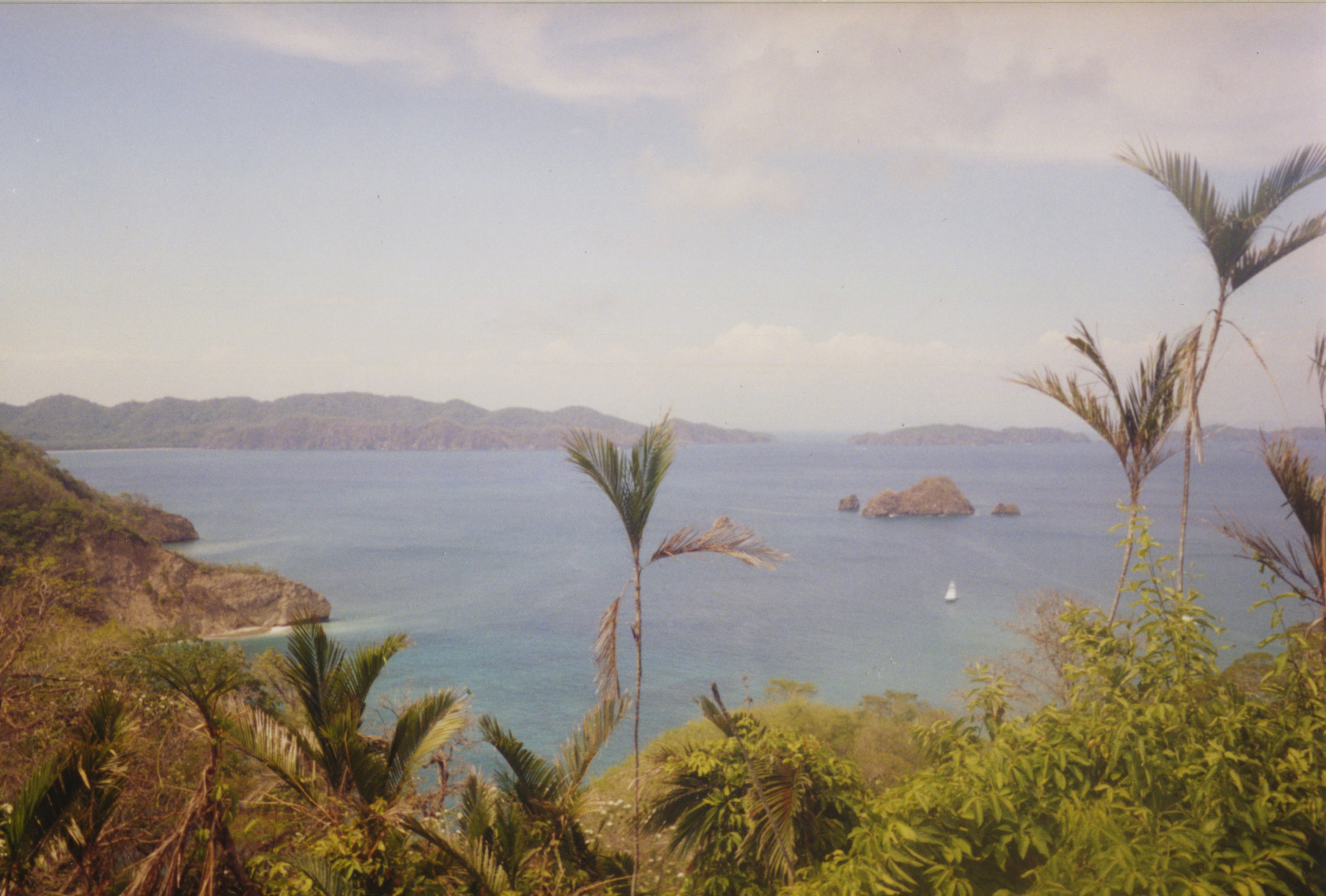 a landscape, south-west Costa-Rica (2003) own work